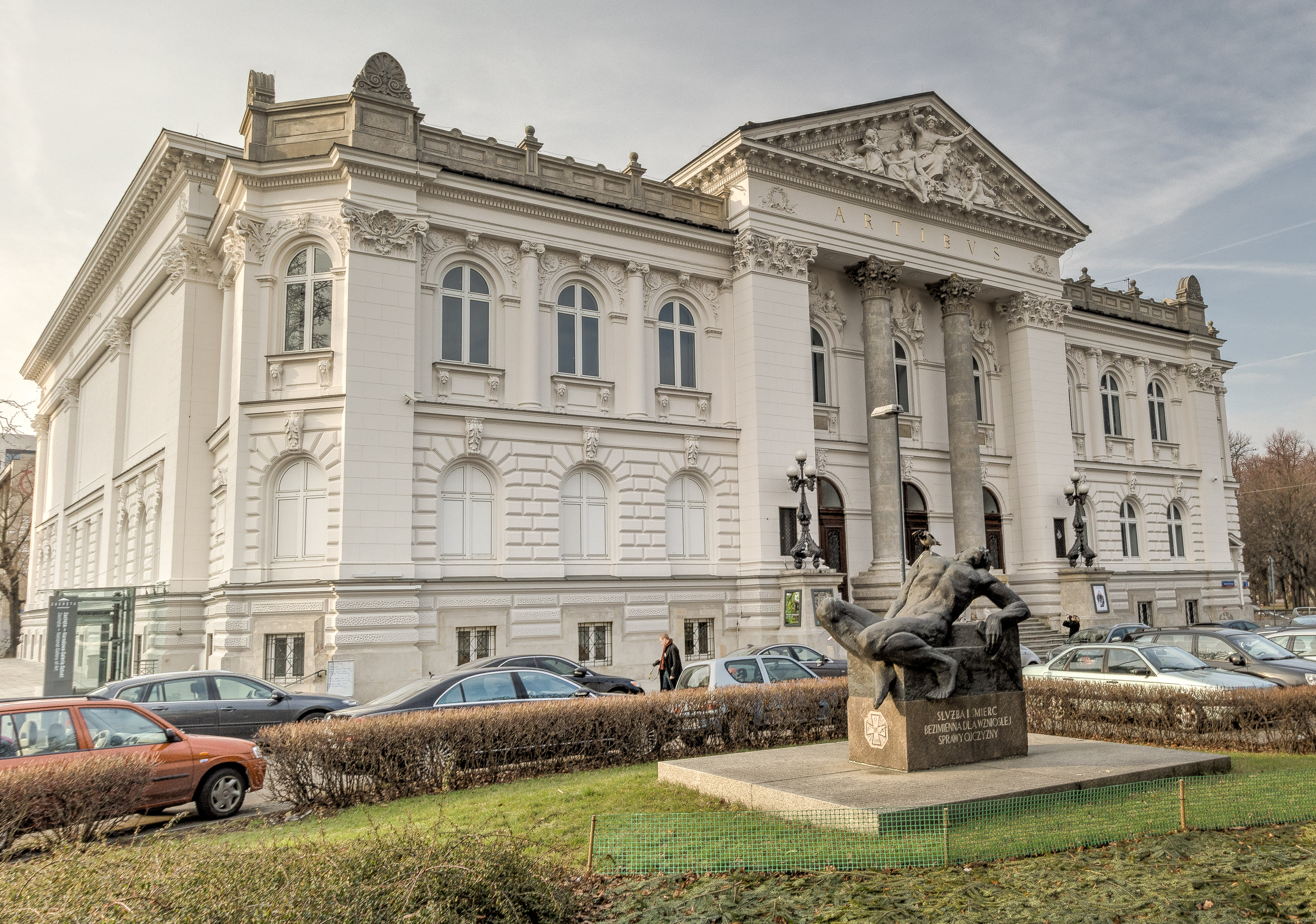 This file was uploaded to Wikimedia Commons by participants of Zachęta do Wikipedii, a GLAM-Wiki event organised at Zachęta - National Gallery of Art as part of a partnership project with Wikimedia Polska. Polski | English | +/−